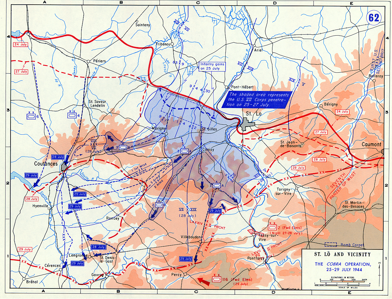 Saint Lo and Vicinity - Operation Cobra - 25-29 July 1944.Background information: In 1938 the predecessors of what is today The Department of History at the United States Military Academy began developing a series of campaign atlases to aid in teaching cadets a course entitled, "History of the Military Art." Since then, the Department has produced over six atlases and more than one thousand maps, encompassing not only America’s wars but global conflicts as well. In keeping abreast with today's technology, the Department of History is providing these maps on the internet as part of the department's outreach program. The maps were created by the United States Military Academy’s Department of History and are the digital versions from the atlases printed by the United States Defense Printing Agency. We gratefully acknowledge the accomplishments of the department's former cartographer, Mr. Edward J. Krasnoborski, along with the works of our present cartographer, Mr. Frank Martini.